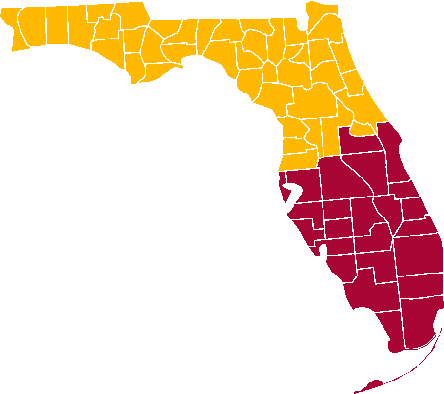 Map portraying the proposed division of Florida as defined by the City of South Miami's Resolution No. 203-14-14297.